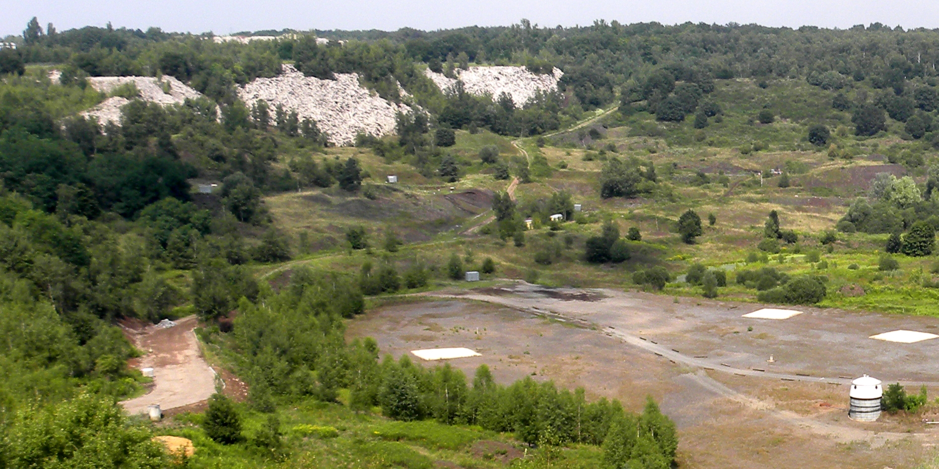 Messel Fossil Pit (Eocene, Germany).